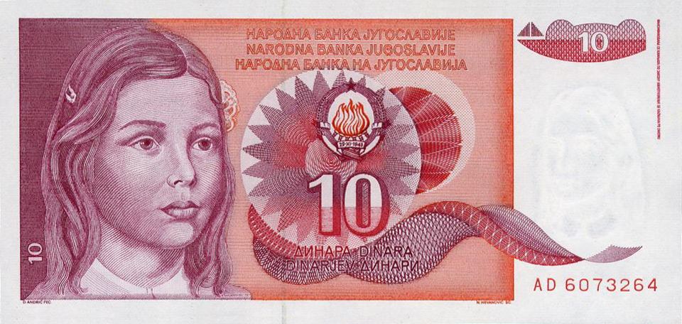 10 Yugoslav dinars (1990)